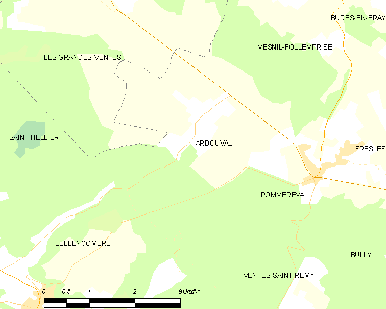 Map of French municipality Ardouval